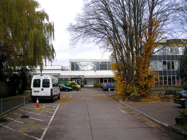 Oxford High School Oxford High School is one of the leading girls' schools in the country, with an outstanding academic record. The postal address of the school is Belbroughton Road, but the main entrance is just around the corner in Charlbury Road. The untidy clump of beech on the right is in fact several trees which have been allowed to grow much too close together.